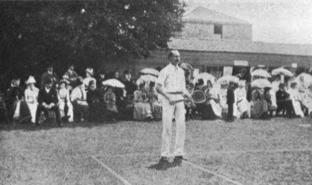 Lacy Sweet (1861-92), English tennis player